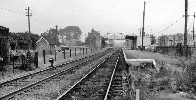 Brandon (Norfolk) Station. View eastward, towards Norwich; ex-GER (London, Cambridge etc.) - Ely - Norwich main line. The station serves Brandon in Suffolk, but is actually in Norfolk, across the river from Suffolk.